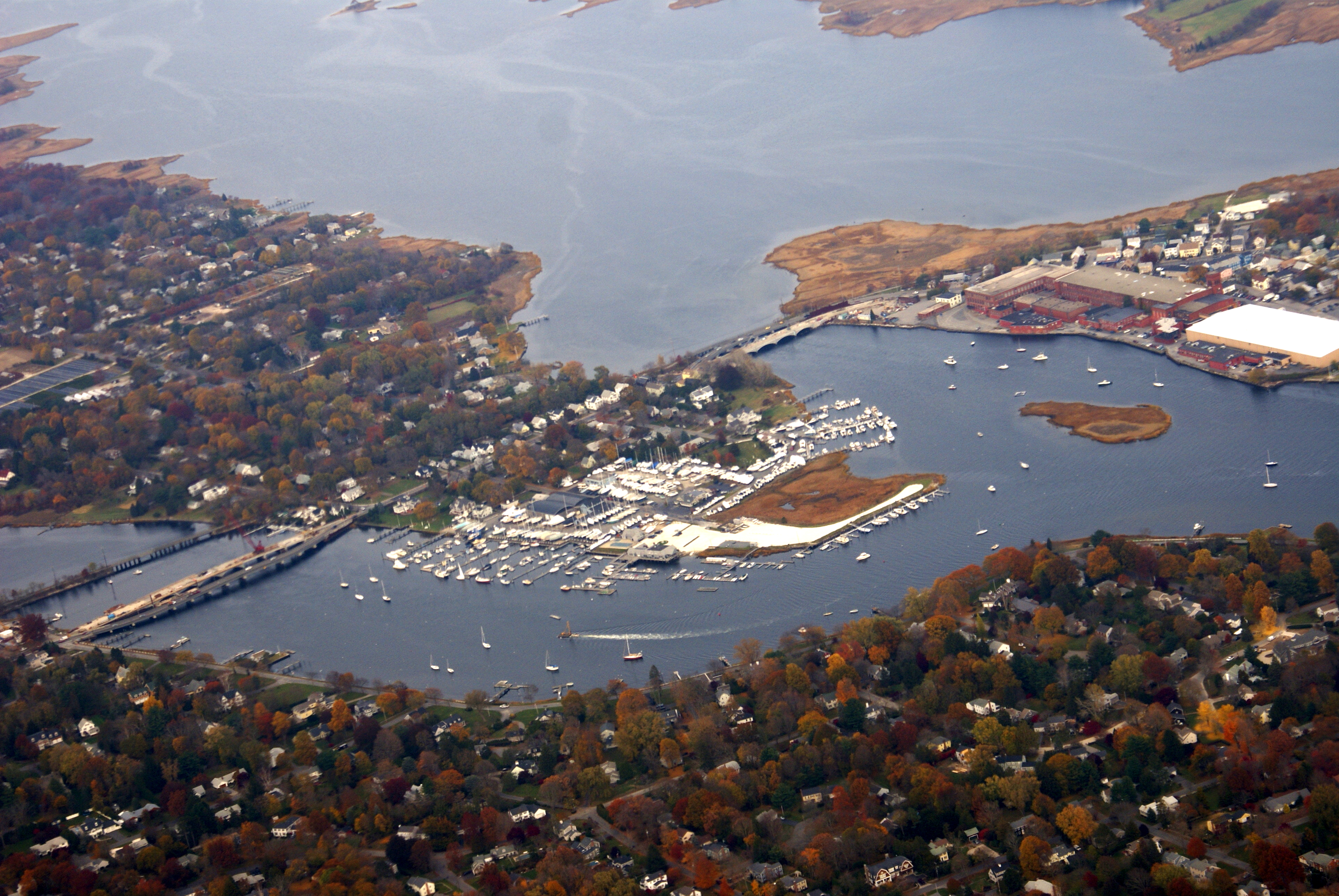 Aerial view of the County Road bridge connecting western Barrington, Rhode Island to its eastern portion.